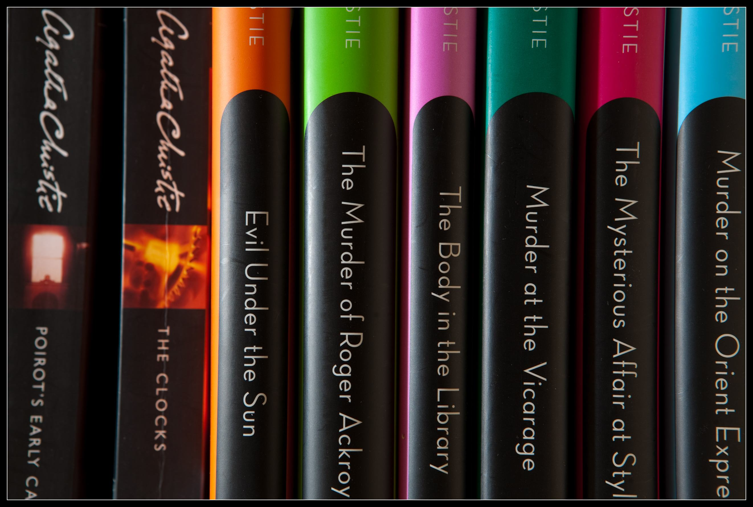 Mystery collection